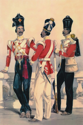 A chromolithograph of 32nd Madras Native Infantry (now 4 Baloch) by Henry Martens, 1845.